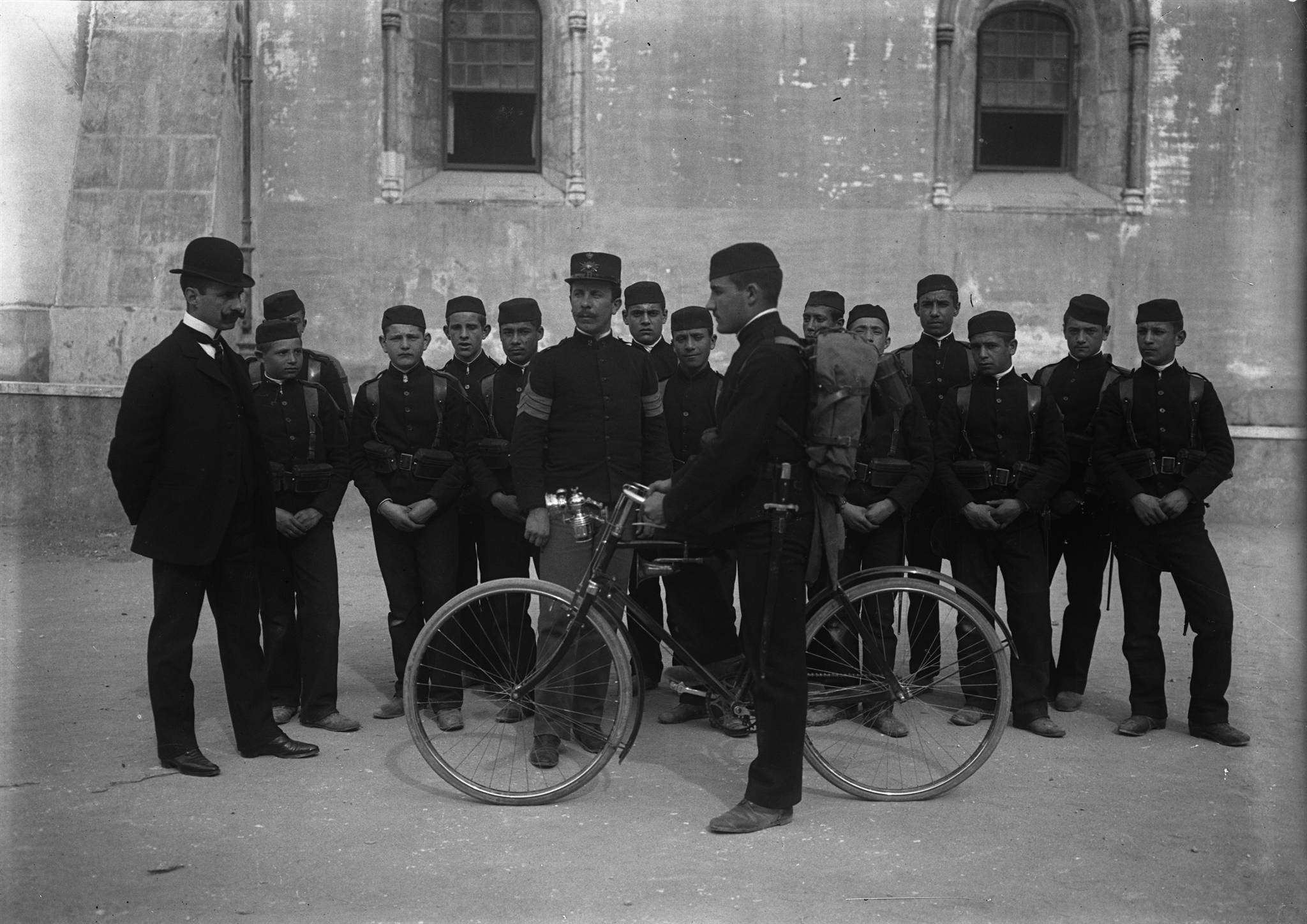 Portuguese Sargent is ready to ride his bike (1907, Lisbon)